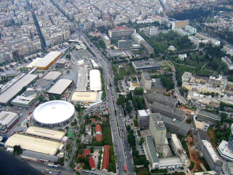 Aerial view of central Thessaloniki, Greece. Left side: The Thessaloniki International Trade Fair; Right side: The Aristotle University of Thessaloniki campus and AHEPA Hospital.